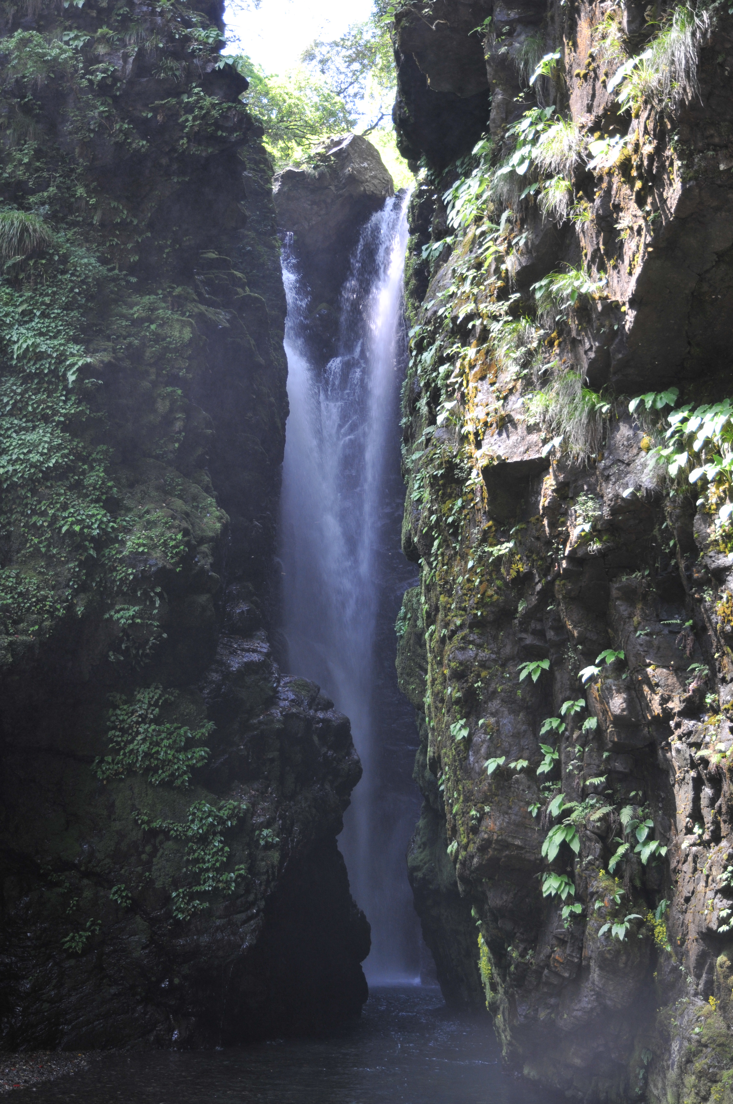 Todoroki Hontaki falls